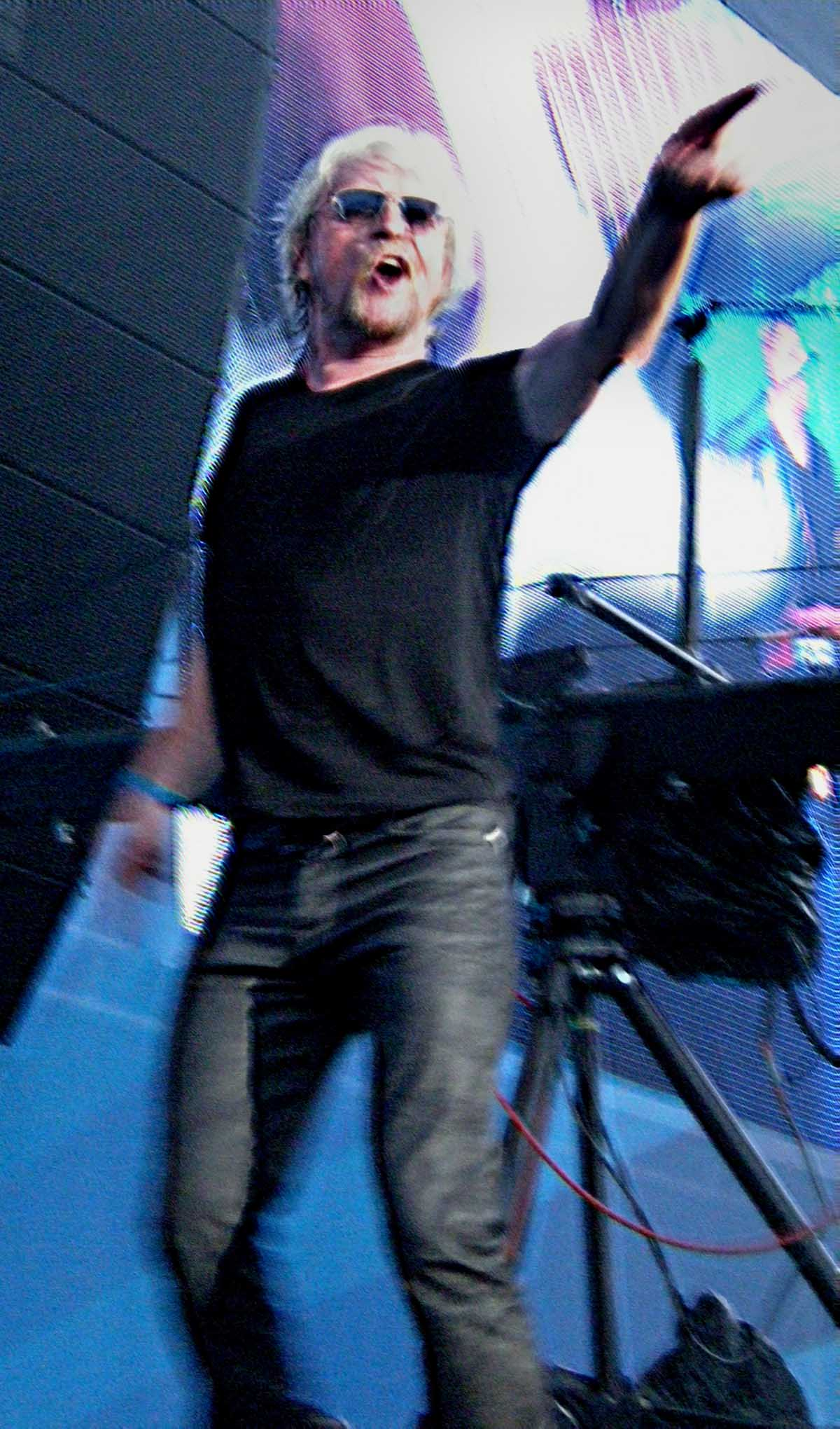 Donauinselfest 20090627 Reinhold Bilgeri alife and kickin' 175e Note: EXIF time is set to UTC, which is local time-2.